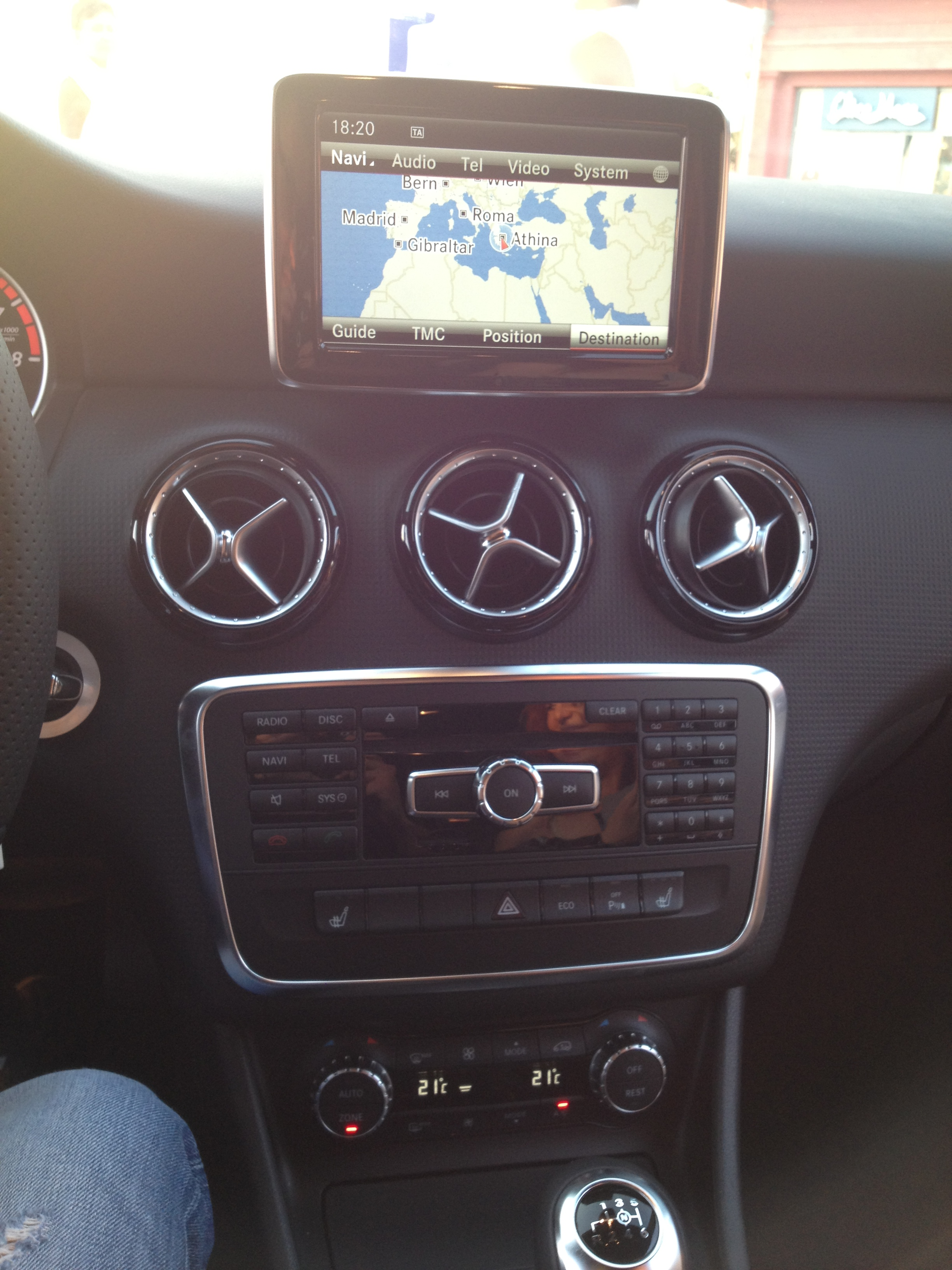 Mercedes A-Class 2012.